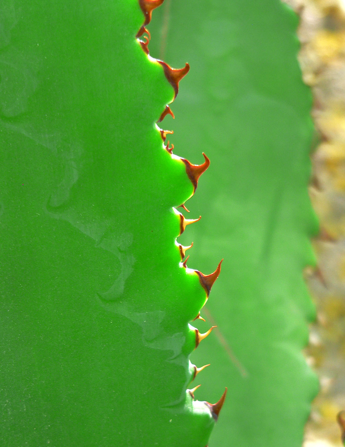 Agave bovicornuta at the Ethel M Botanical Cactus Garden, Las Vegas, Nevada